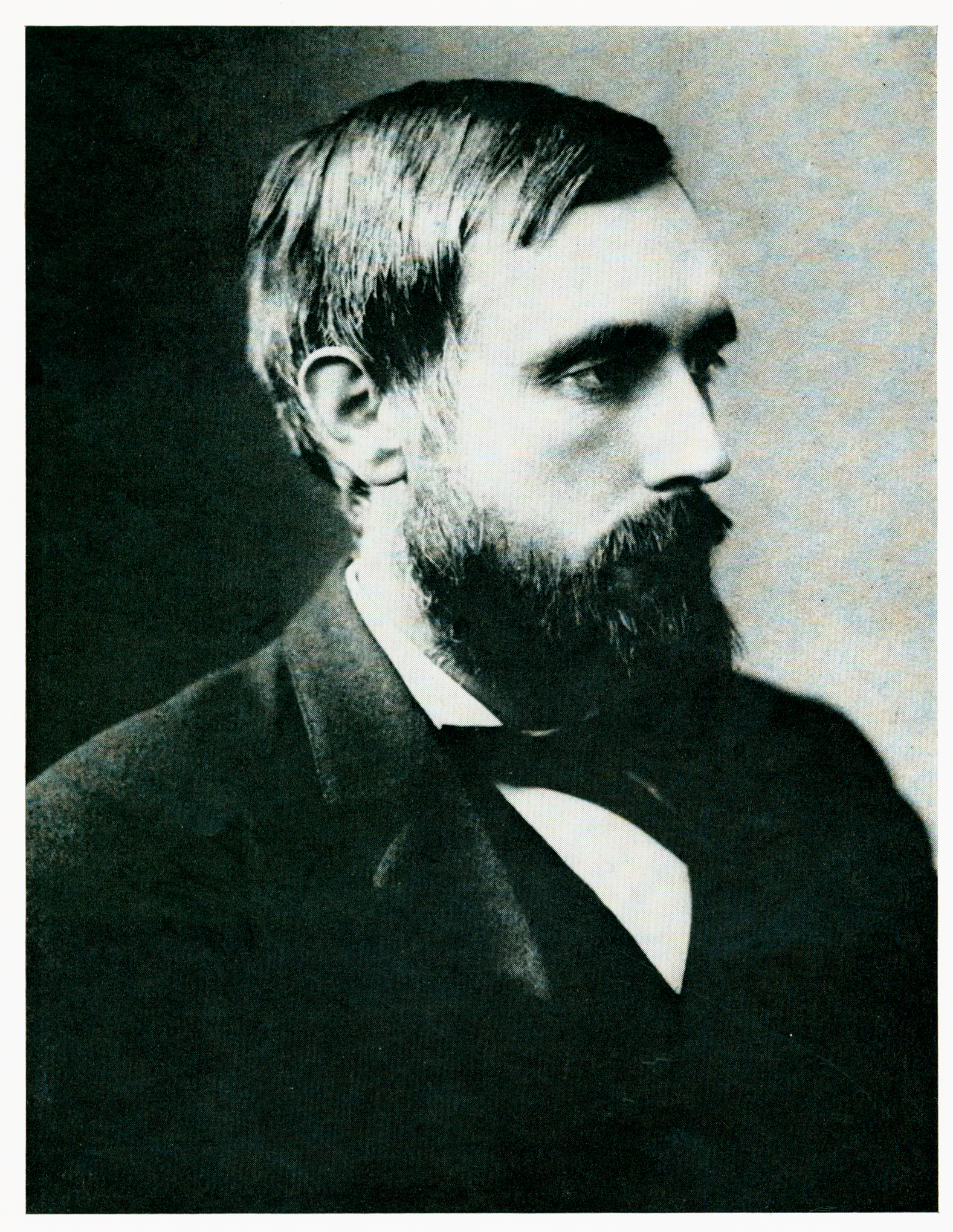 John Dillon, an Irish political personality and Member of Parliament (MP) of the Irish Parliamentary Party.